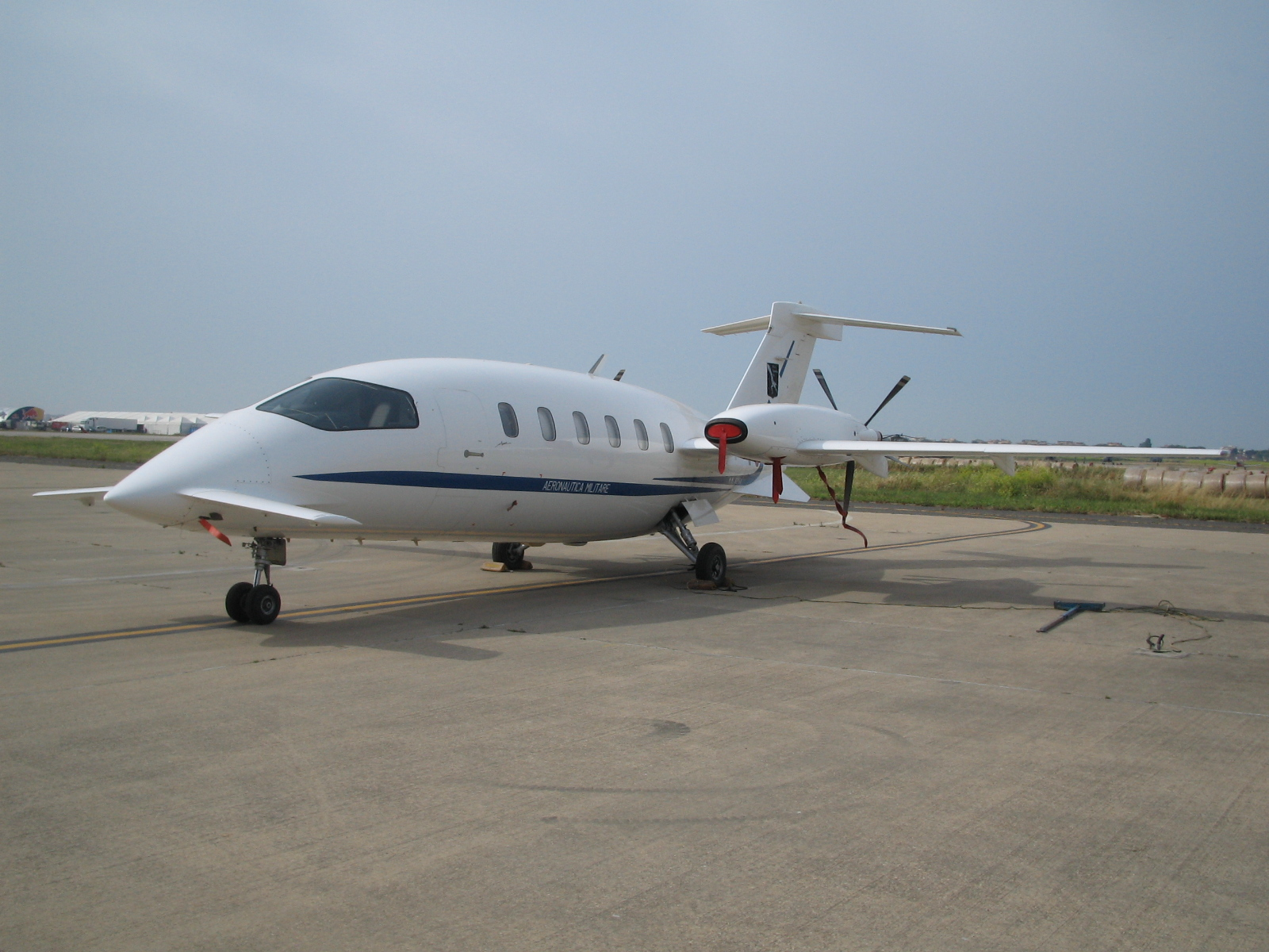 Italian Air Force executive aircraft Piaggio P-180 Avanti